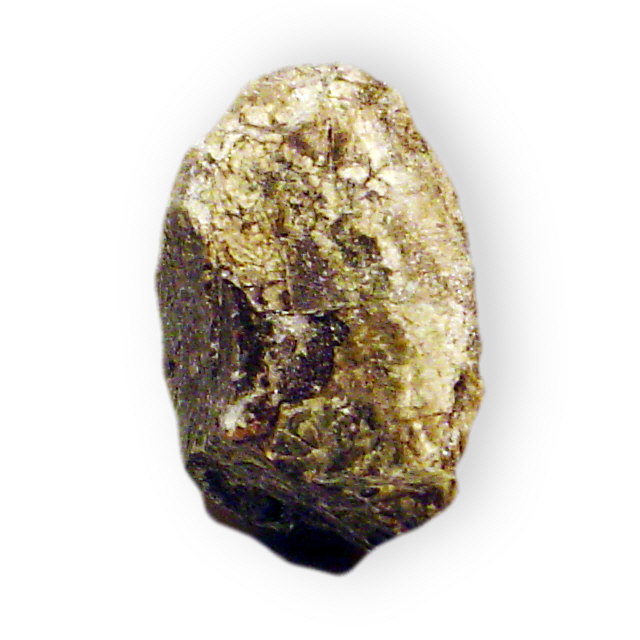 These mineral images are free to use how you wish.